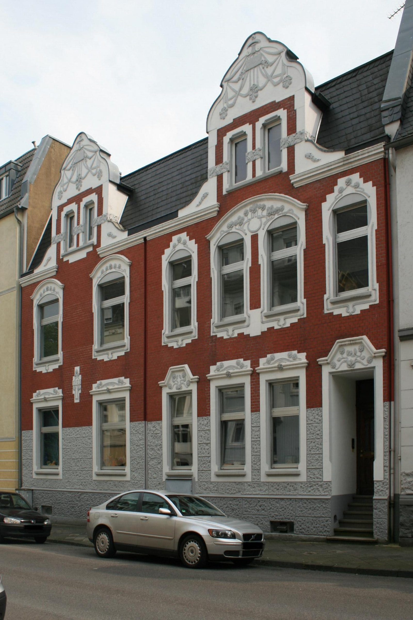 Cultural heritage monument No. H 086 in Mönchengladbach